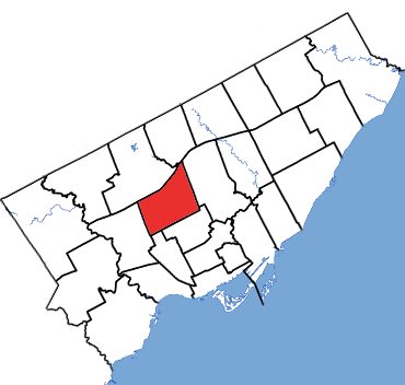 Eglinton-Lawrence in relation to the other Toronto ridings (2015 boundaries)